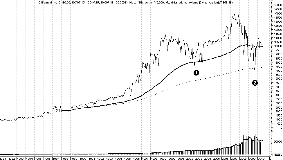 gen 2 curve